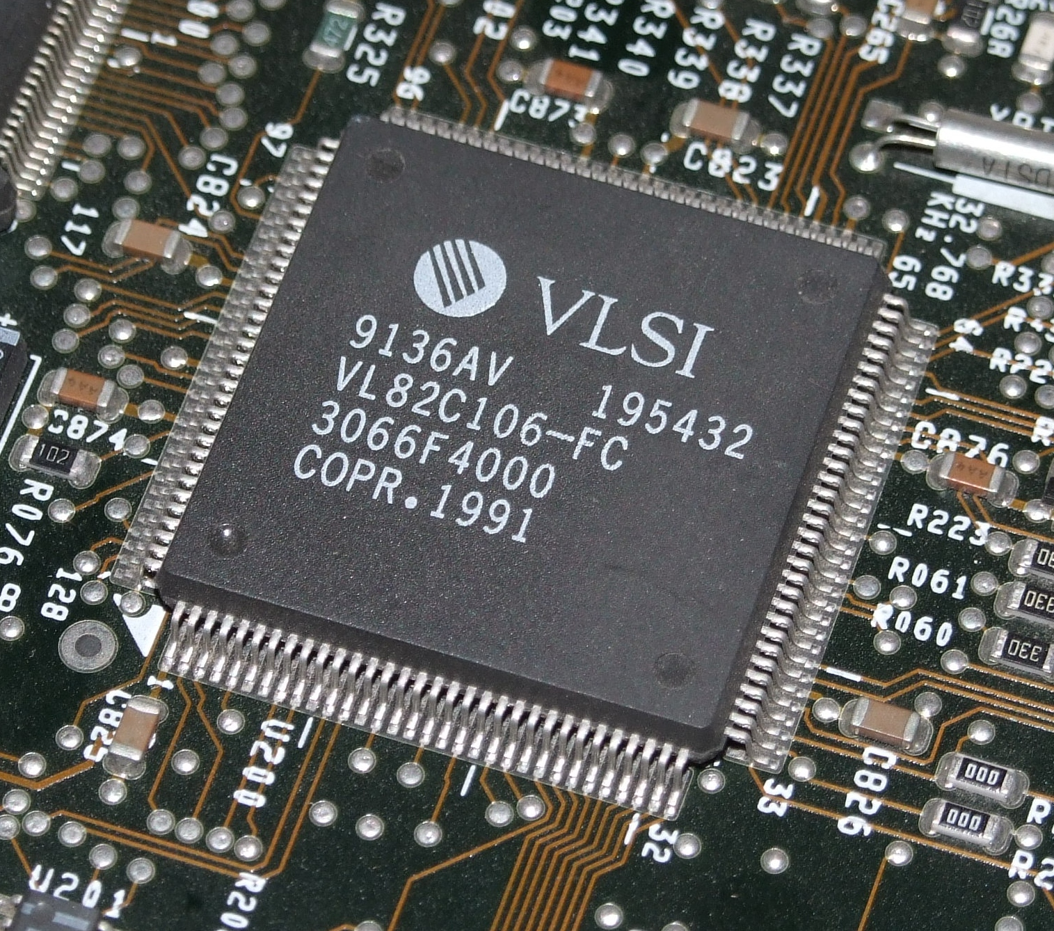 The VLSI VL82C106 is a I/O chip for x86 computers.